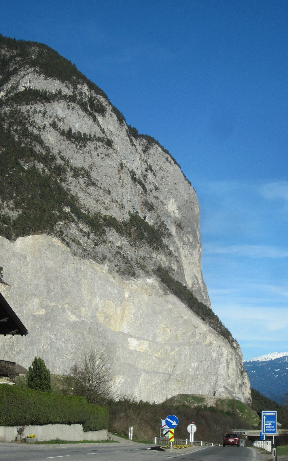 Martinswand, view from Zirl